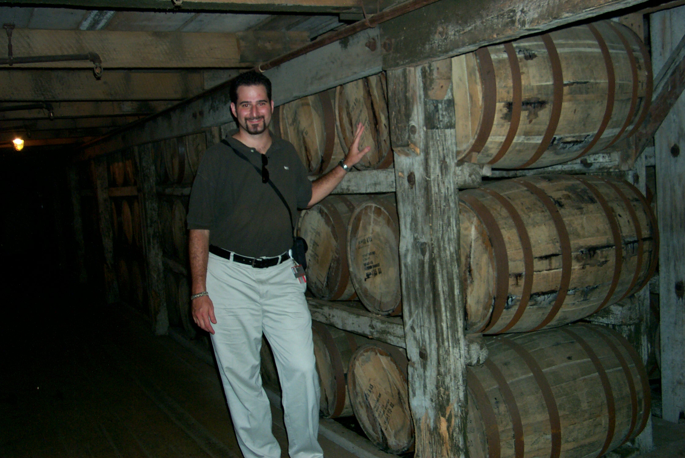 Bourbon casks at Buffalo Trace Distillery